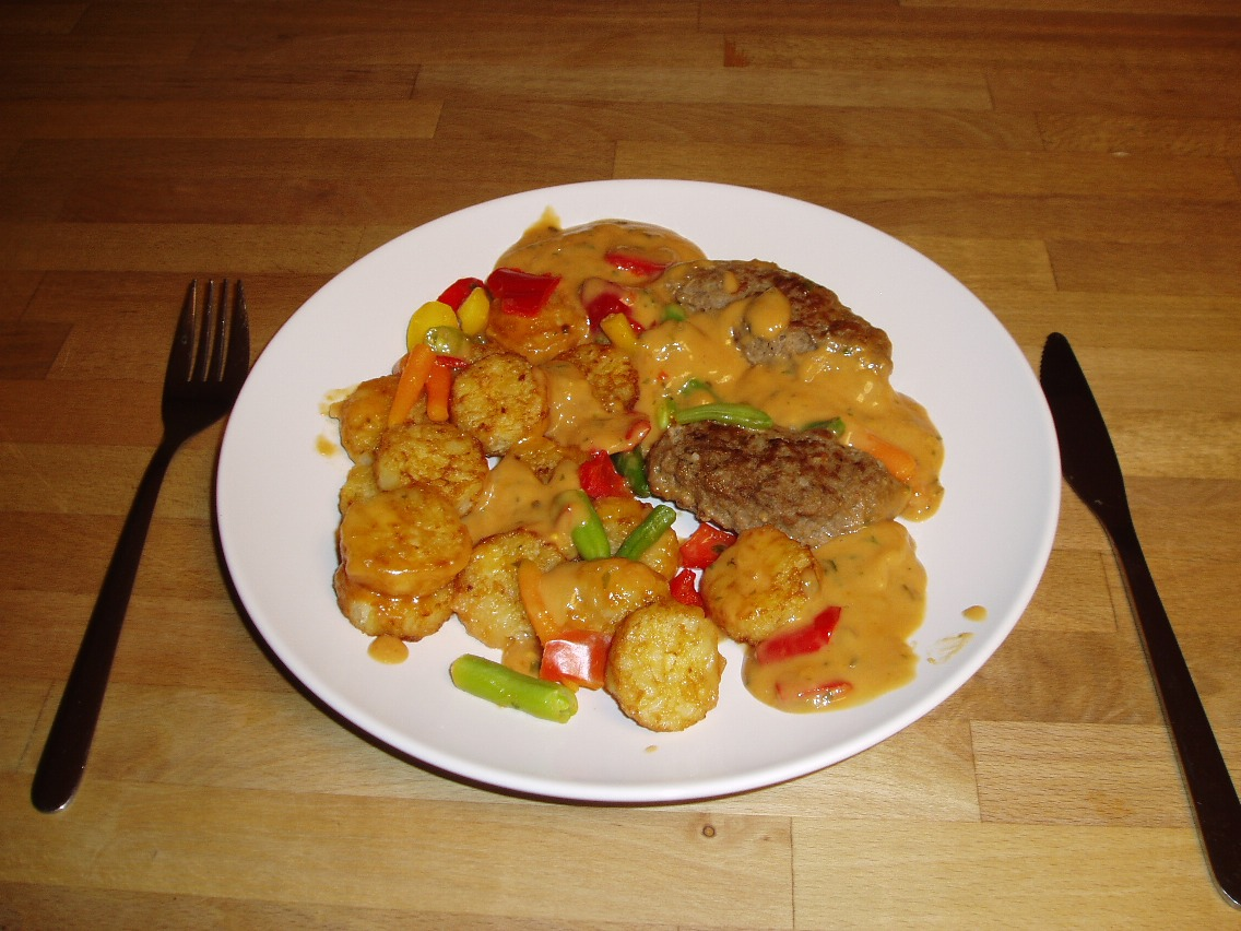 Järpar, swedish kind of meatballs